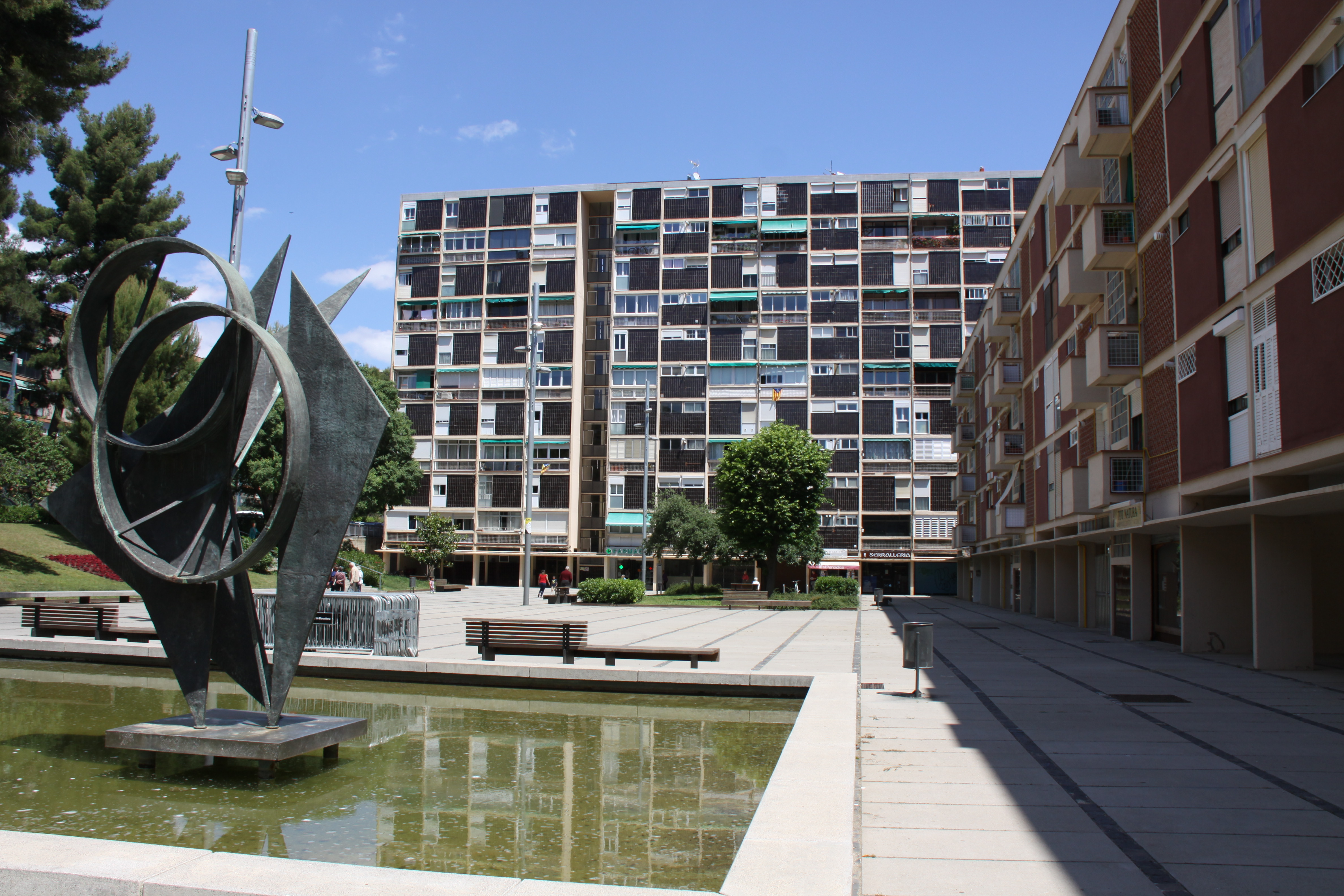 Montbau quarter in Barcelona (1957-68), by architects Giráldez, López Íñigo and Subías. Main square, upper level, eastwards